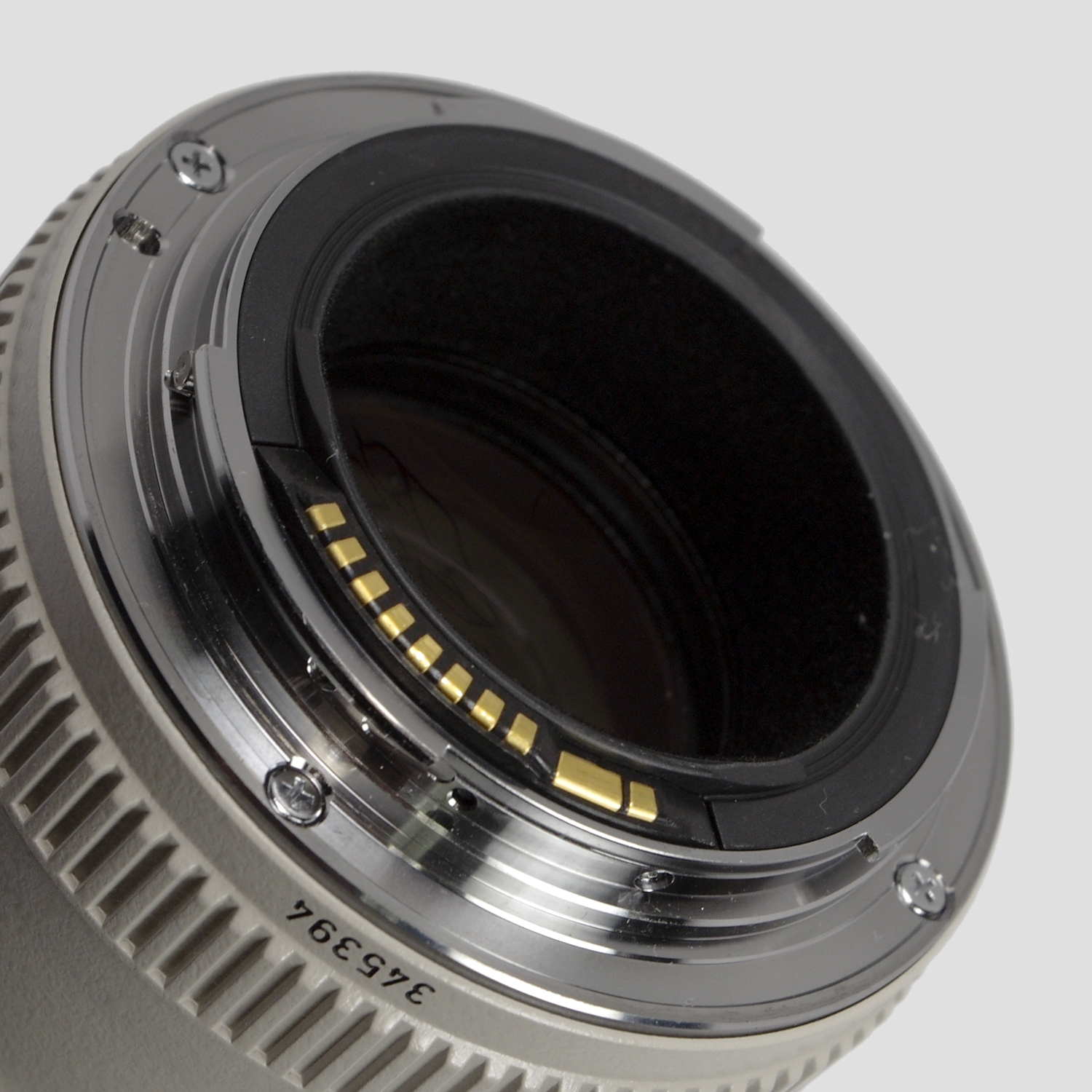 Photo of the mount used by Canon EF Telephoto lenses. Note the three extra electronic contacts. Lens that was used as subject, is the Canon EF 70-200mm f/4L USM.